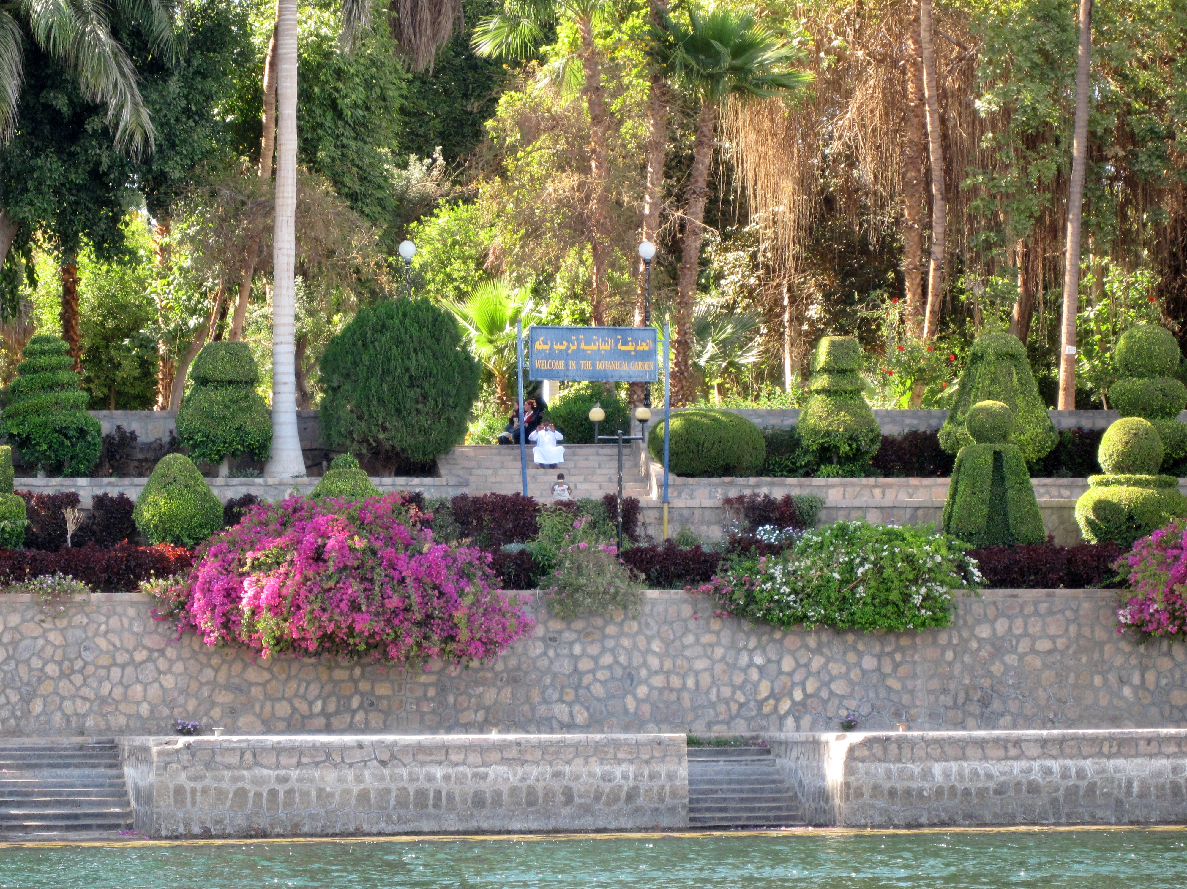 Entrance to the Aswan Botanical Garden. On Kitchener's Island in the Nile, Aswan - Egypt.